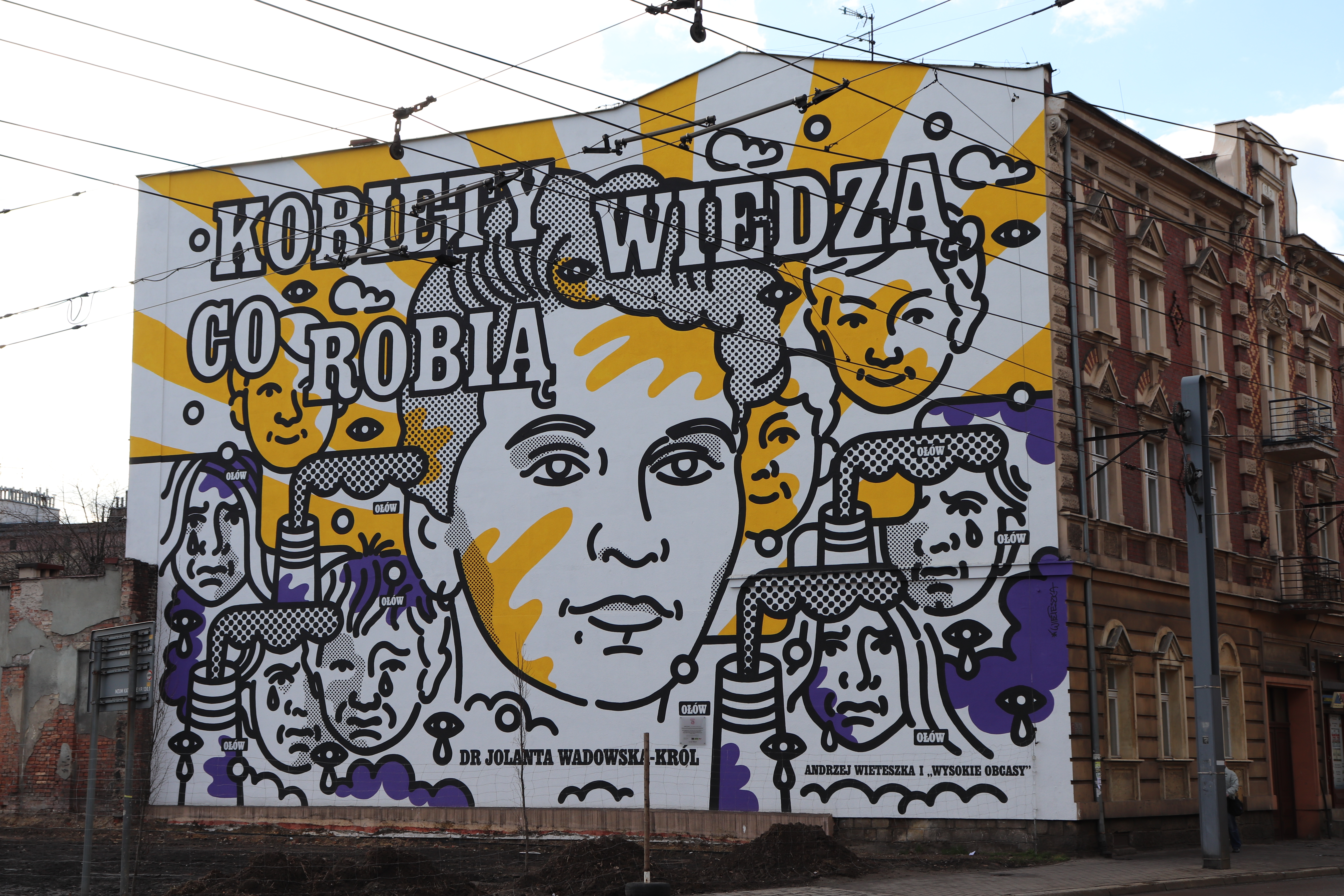 Katowice - mural "Women know what they do - Dr. Jolanta Wadowska-Król" on the house at 58 Gliwicka str., commemorating her research of lead poisoning of children from Szopienice